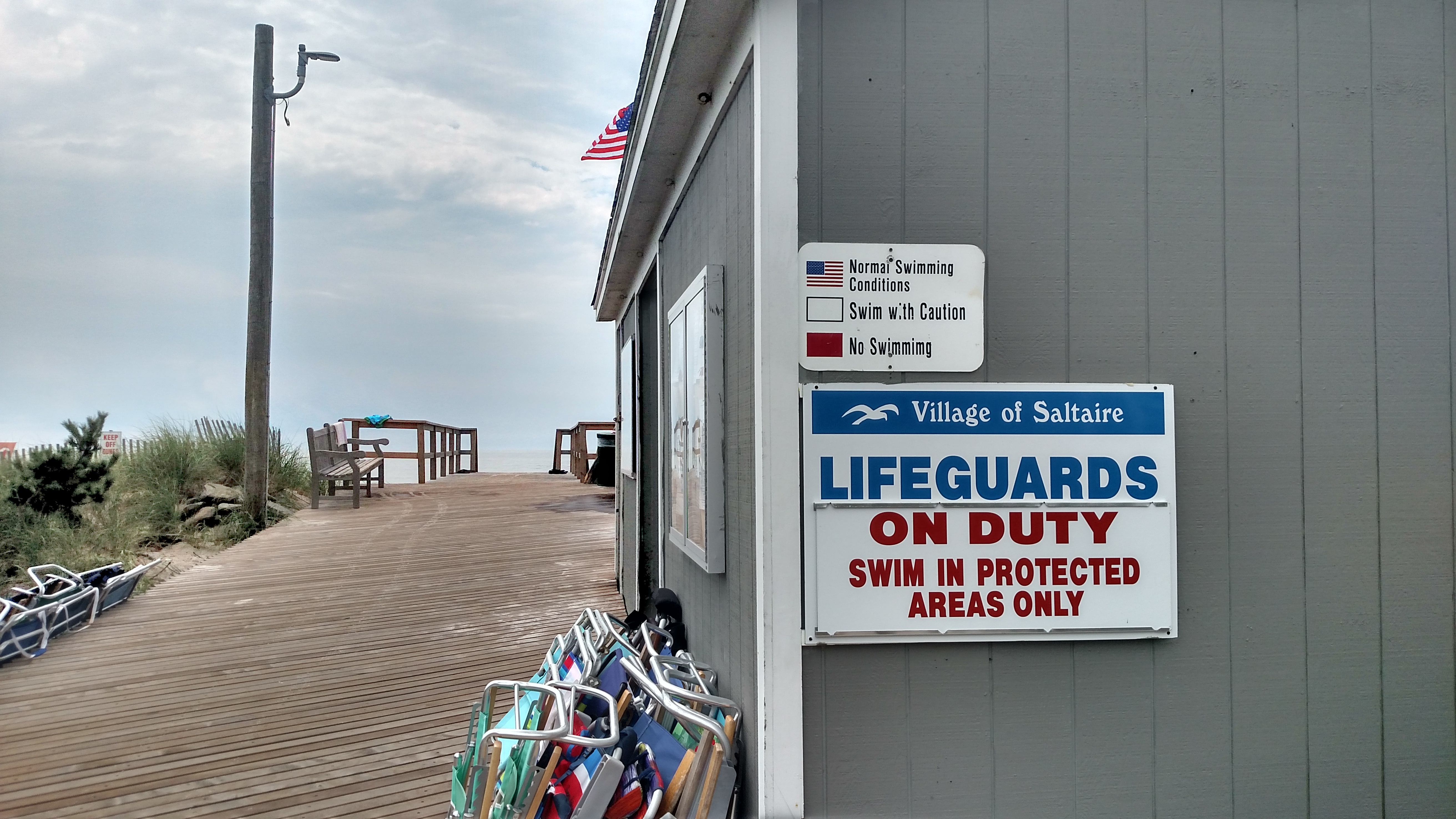 Saltaire